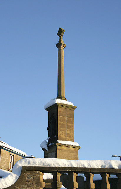 Selkirk War Memorial